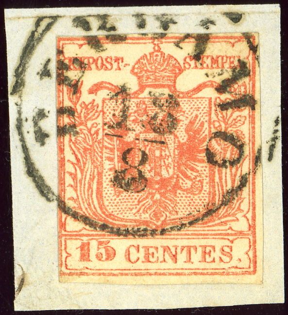 Stamp of Lombardy-Venetia, 15 centesimi issue 1854, type IIIa, cancelled at BERGAMO (Lombardy Region). Michel 3Y.